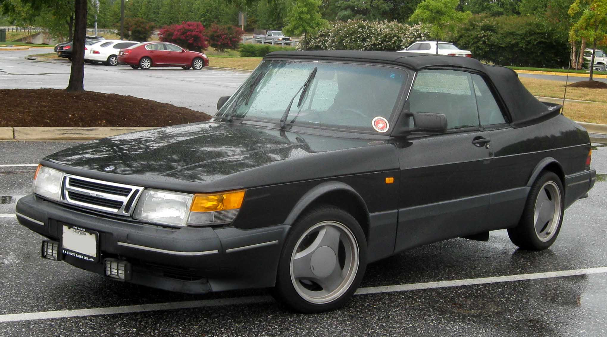 Saab 900 photographed in Clinton, Maryland, USA.